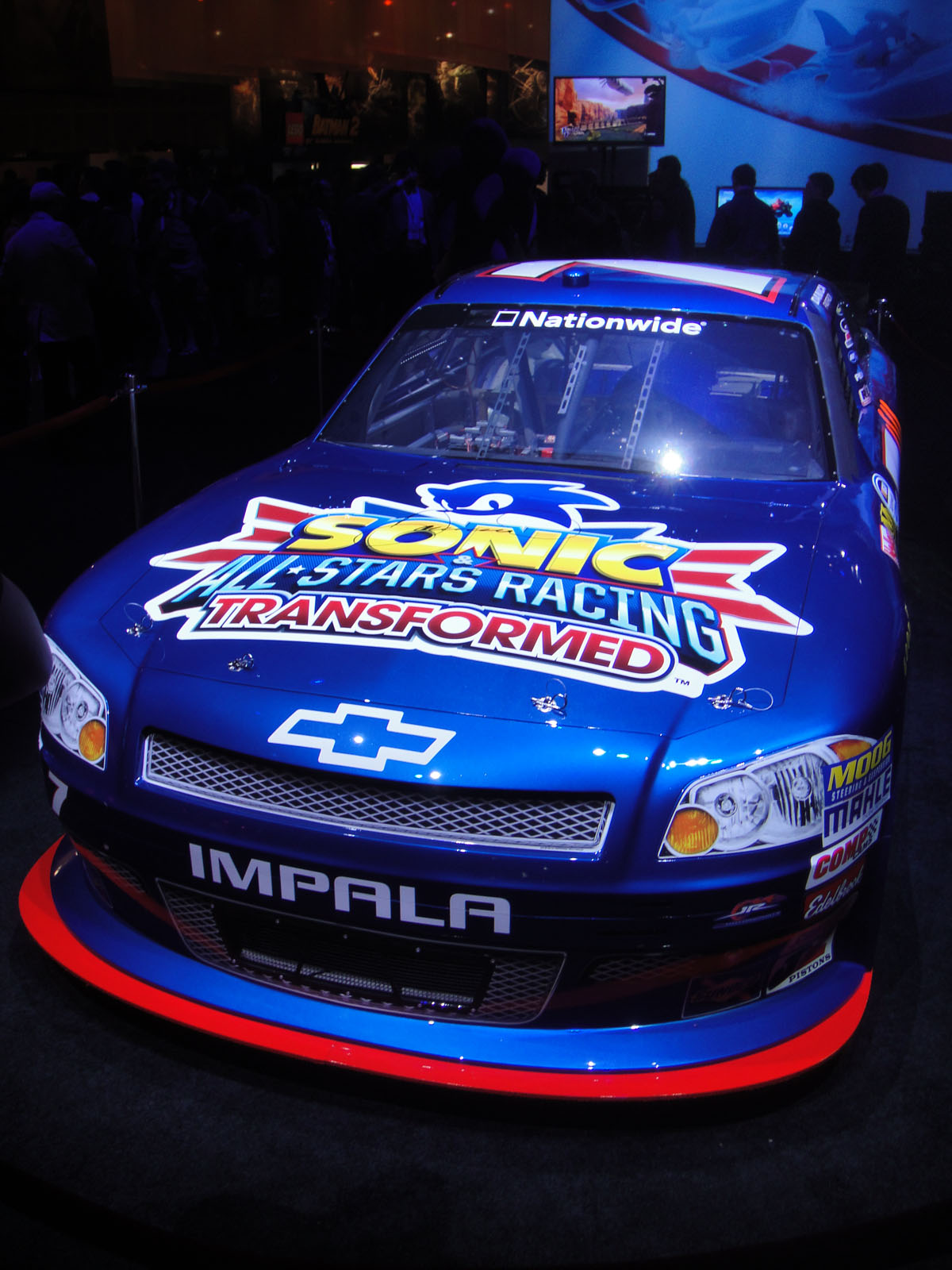 E3 Expo 2012 - Sega Sonic All-Stars Racing Transformed